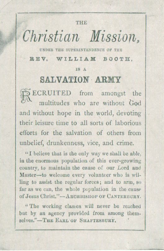 Manifesto of The Salvation Army